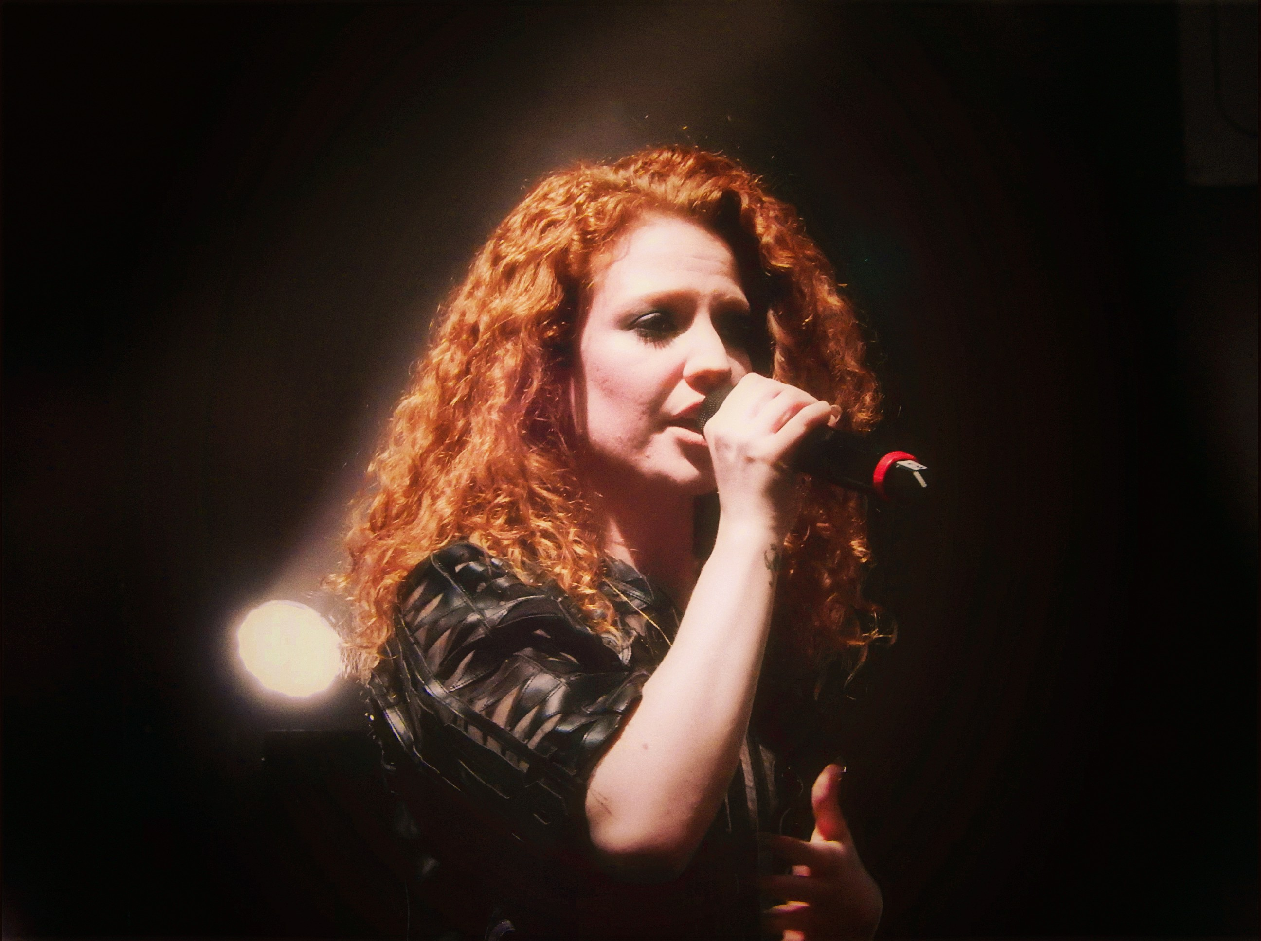 Jess Glynne performing at O2 Shepherds Bush Empire in 2014.